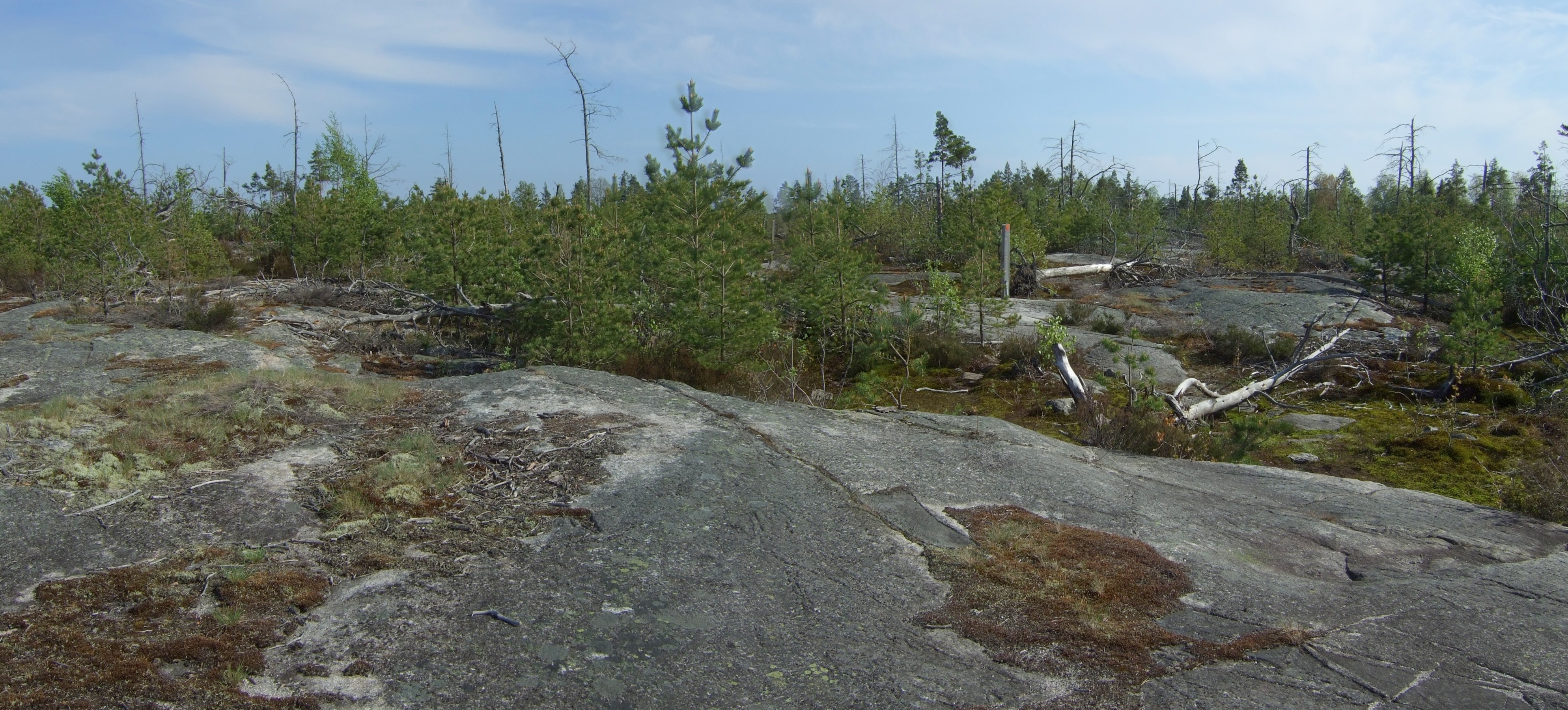 Area which was ridden by a forest fire (1999) in Tyresta national park. Note the short pine trees.